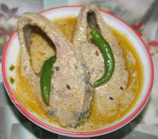 A Bangladeshi Cuisine; made with Hilsha fish and curd.